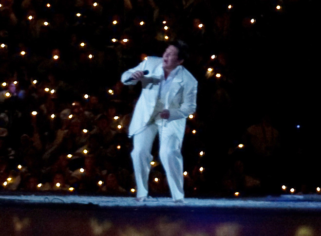 k.d. lang performing Leonard Cohen's Hallelujah at the 2010 Winter Olympics opening ceremonies